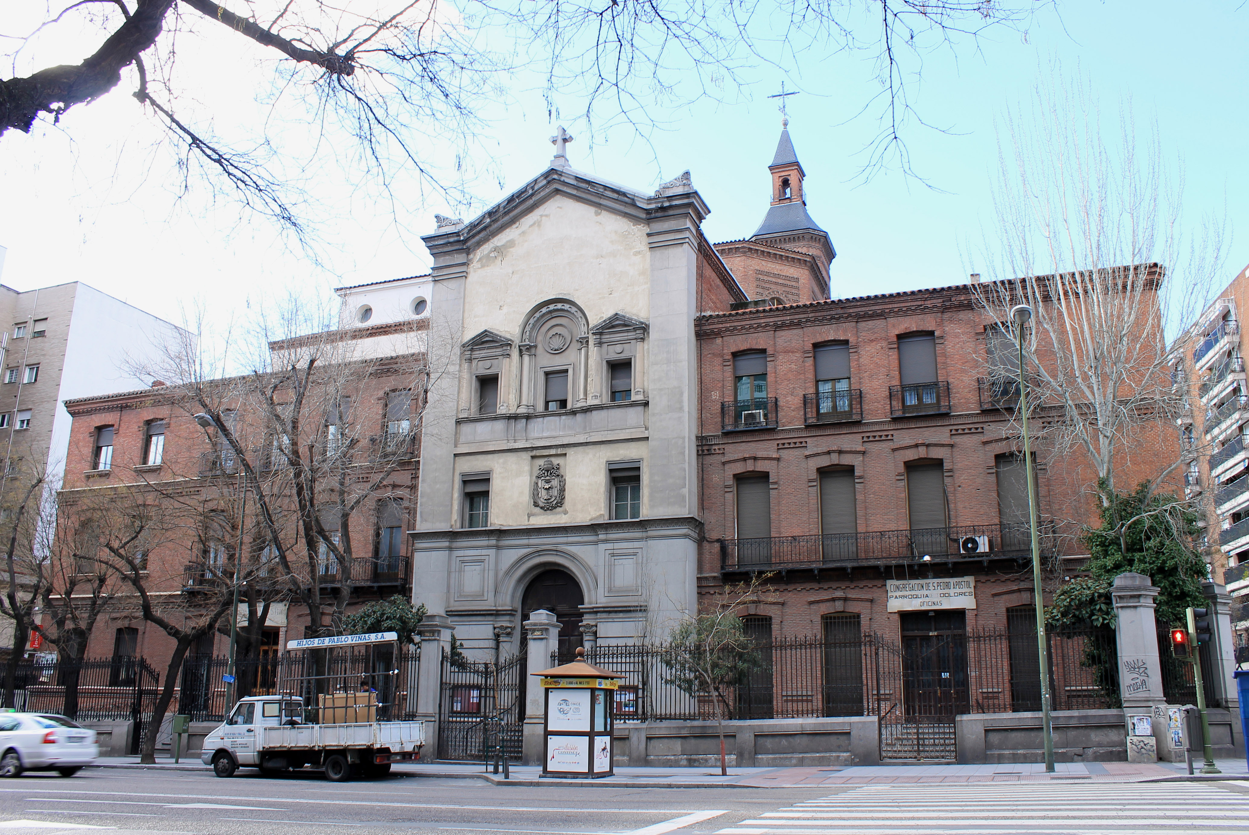 Façade of Hospital de San Pedro de los Naturales (a hospital) in Madrid (Spain).